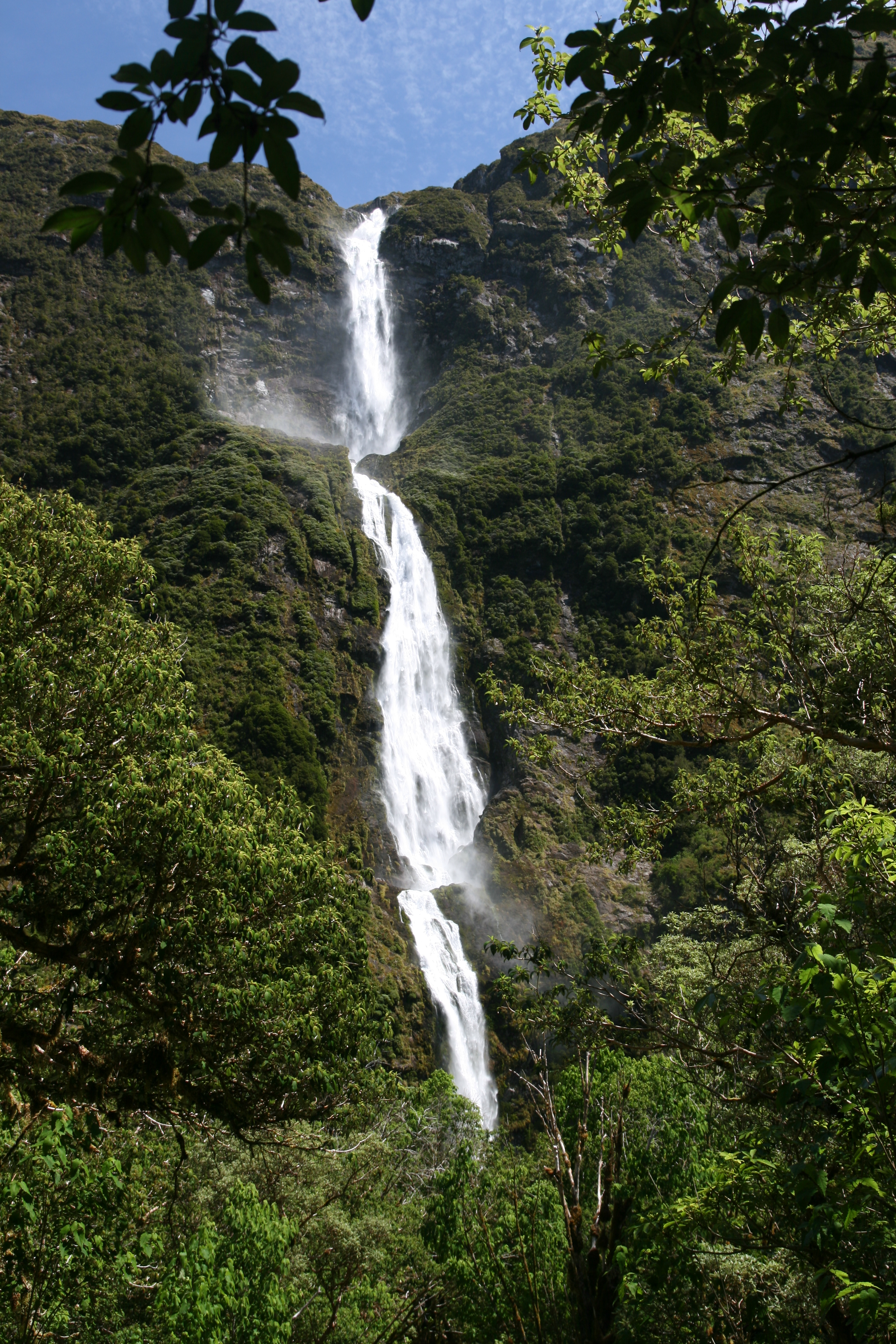 The highest waterfalls in New Zealand (580 m), but in reality is split into three sections. To see it you have to take a detour of 90 minutes (round trip) on the third day of the Milford Track. Fiordland National Park, South Island, New Zealand.